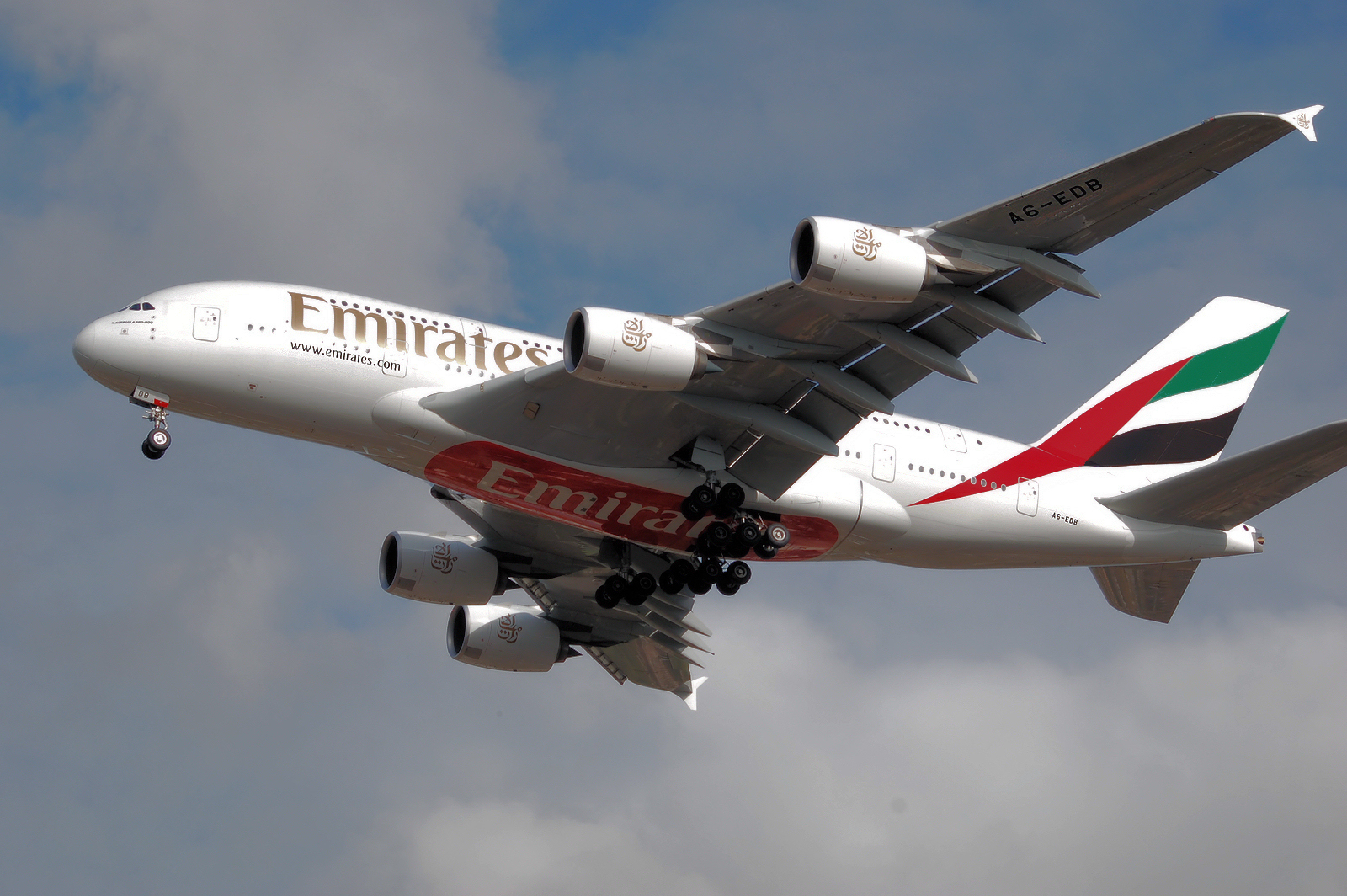 Emirates Airbus A380-800 (A6-EDB) lands at London Heathrow Airport, England.